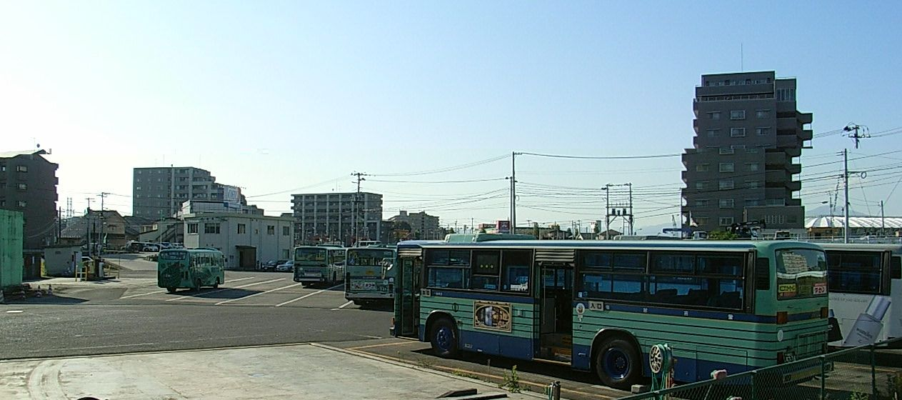 Sendai City Transportation Bureau's Nanakita Branch Office. Yaotome, Izumi-ku, Sendai, Miyagi prefecture, Japan.